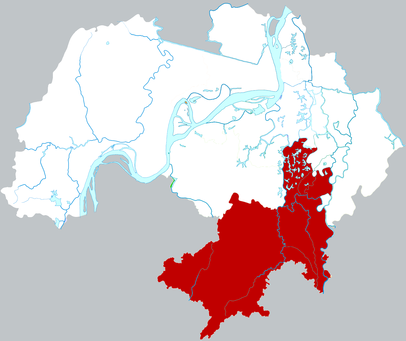 Location of Nanling county in Wuhu city, China